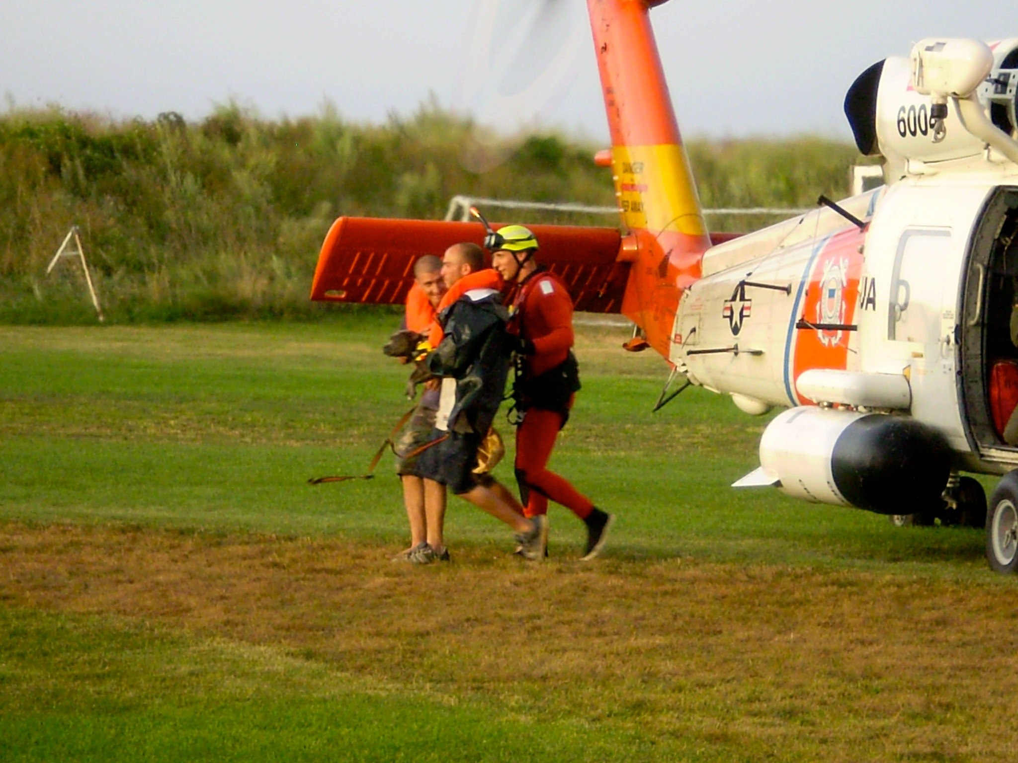 Craig Sheerin, Kenneth Portanovi and their dog after being rescued off of Cape Cod when waves from Hurricane Bill pushed their boat aground. (Image Credit - US Coast Guard)